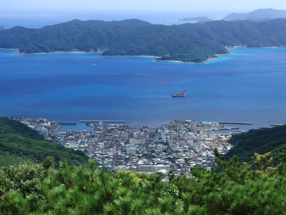 View of Koniya from Kochi-yama(Mt.Kochi-yama) observation deck in Setouchi-cho, Ohshima-gun, Kagoshima-ken, Japan. View with Ohshima-kaikyo(Ohshima Straits) and part of Kakeroma-jima(Island of Kakeroma), too.